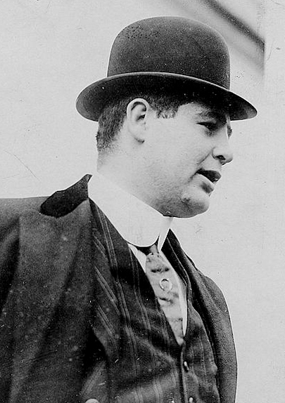 Sam Berger